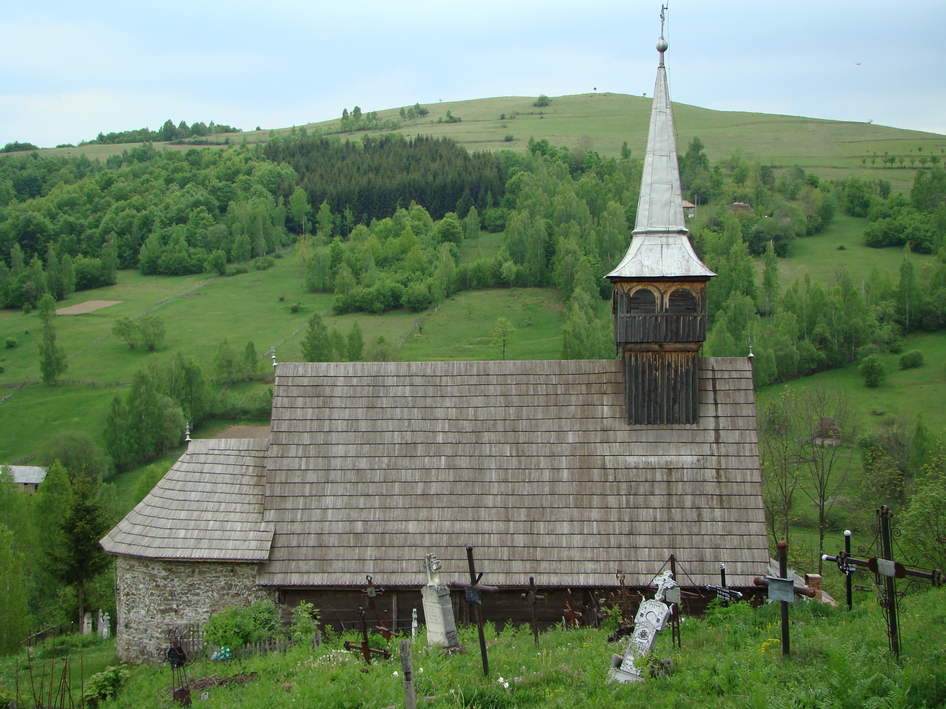 Woden Church in Geogel